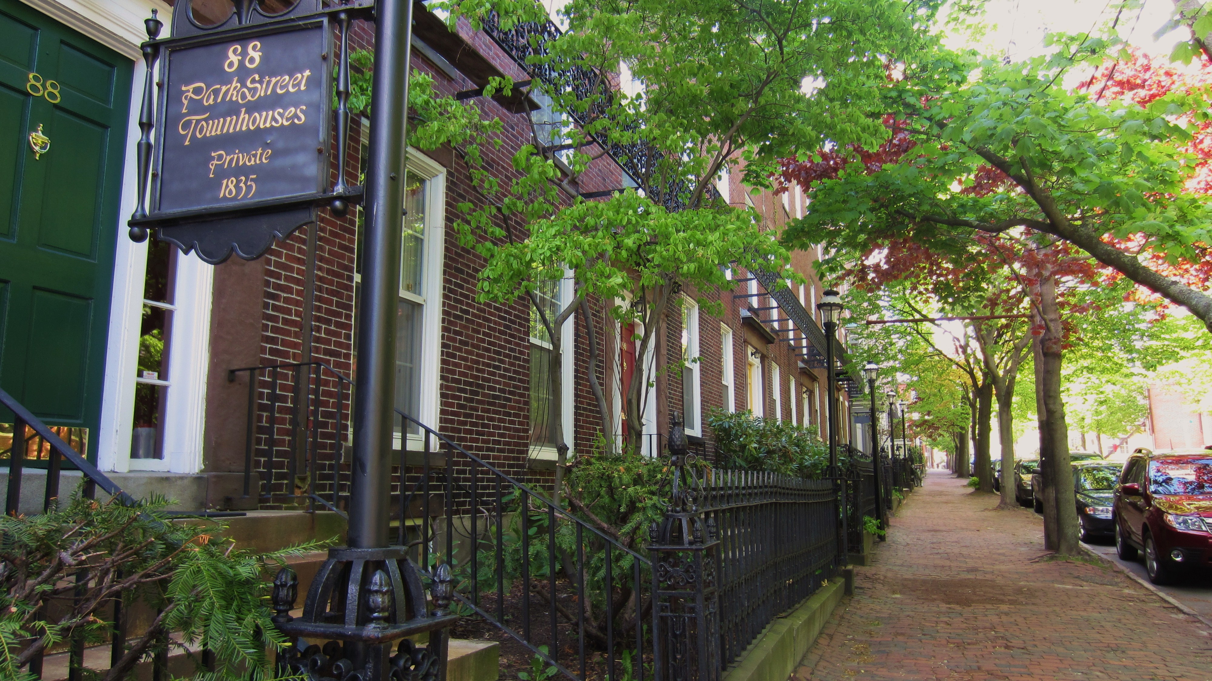 Park Street row houses.